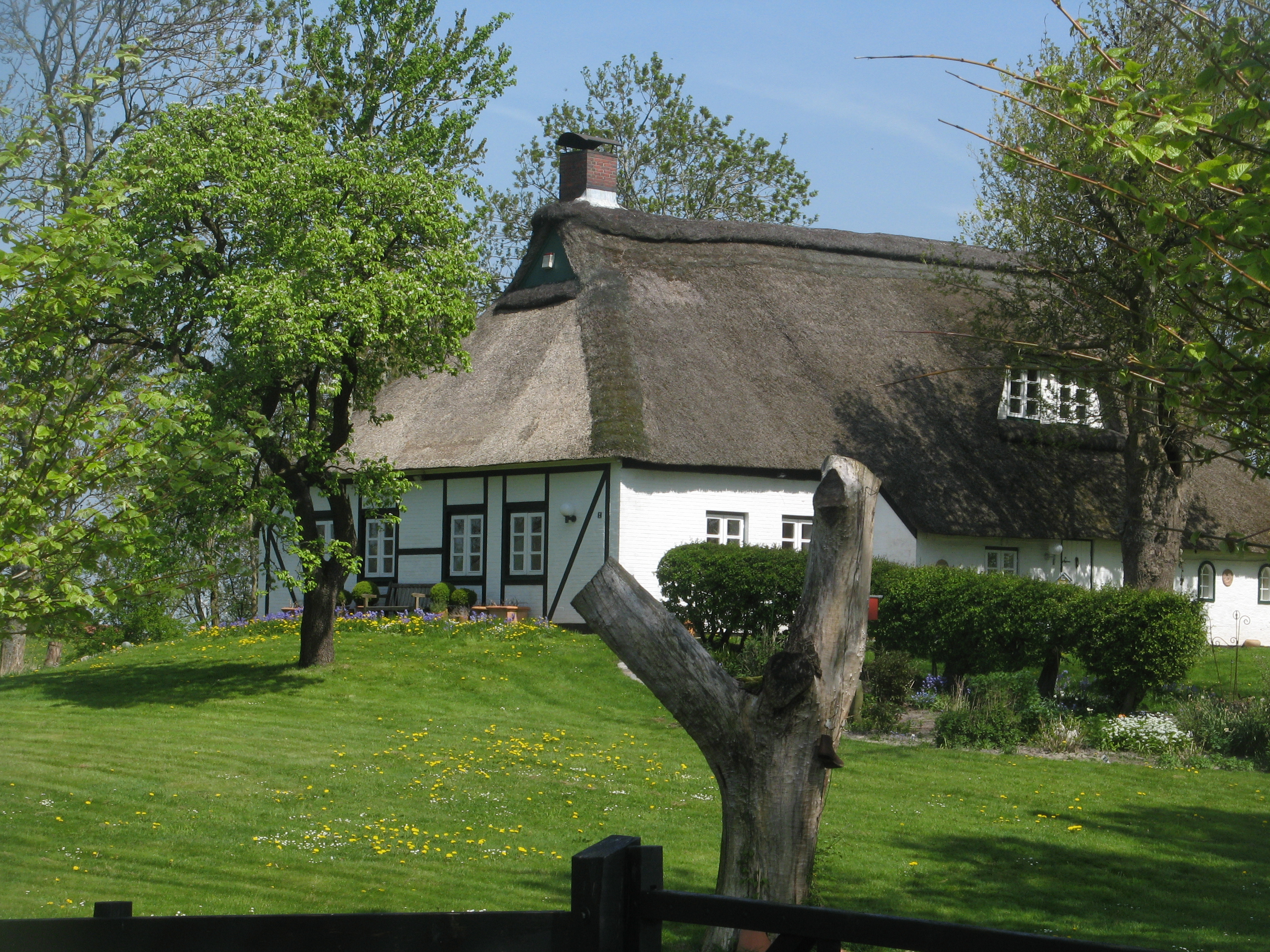 House in Oesterwurth, Holstein, Germany